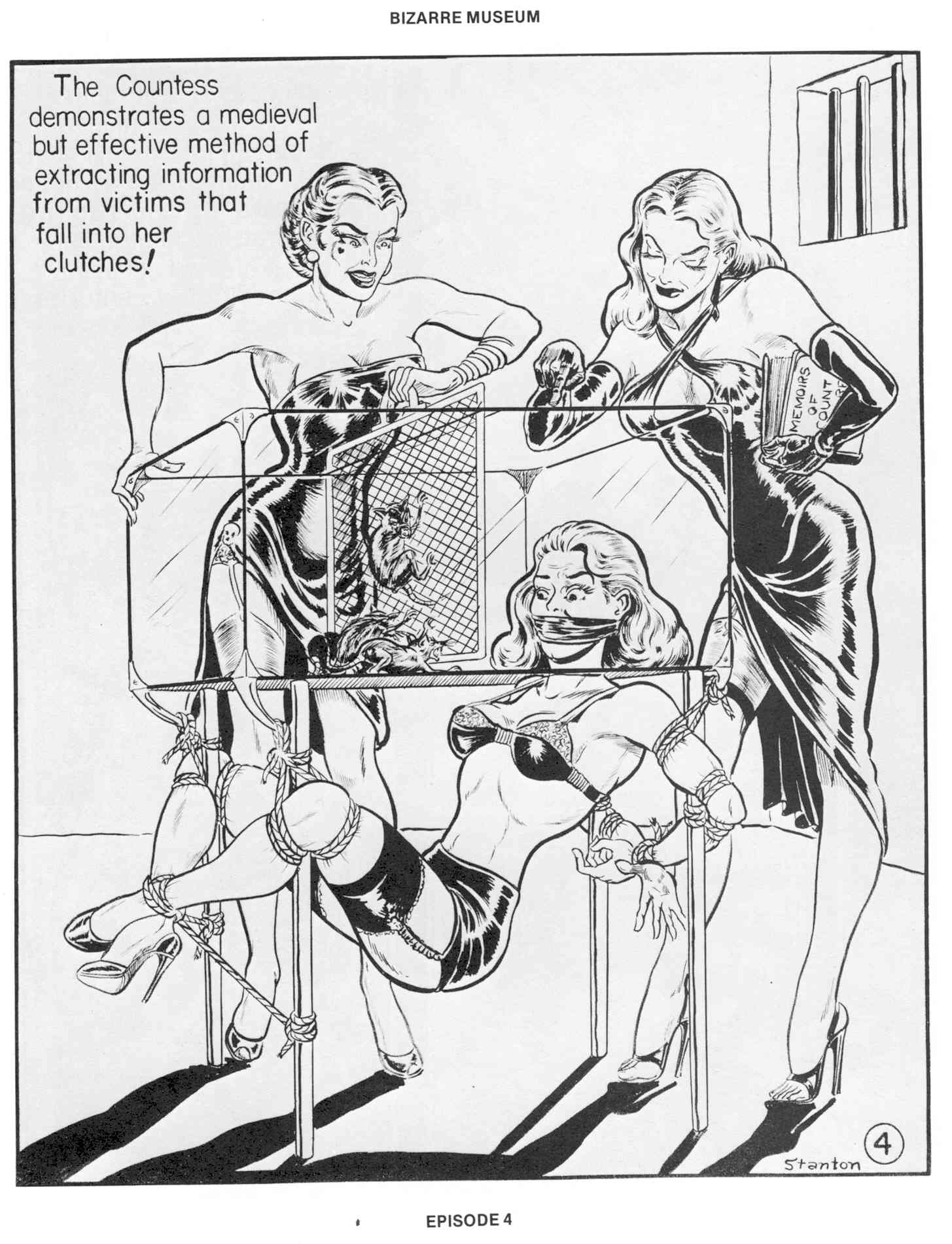 "The Countess demonstrates a medieval but effective method of extracting information from victims that fall into her clutches!"